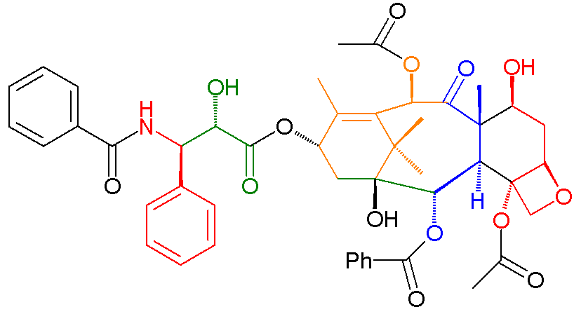 Taxol Total Synthesis Color